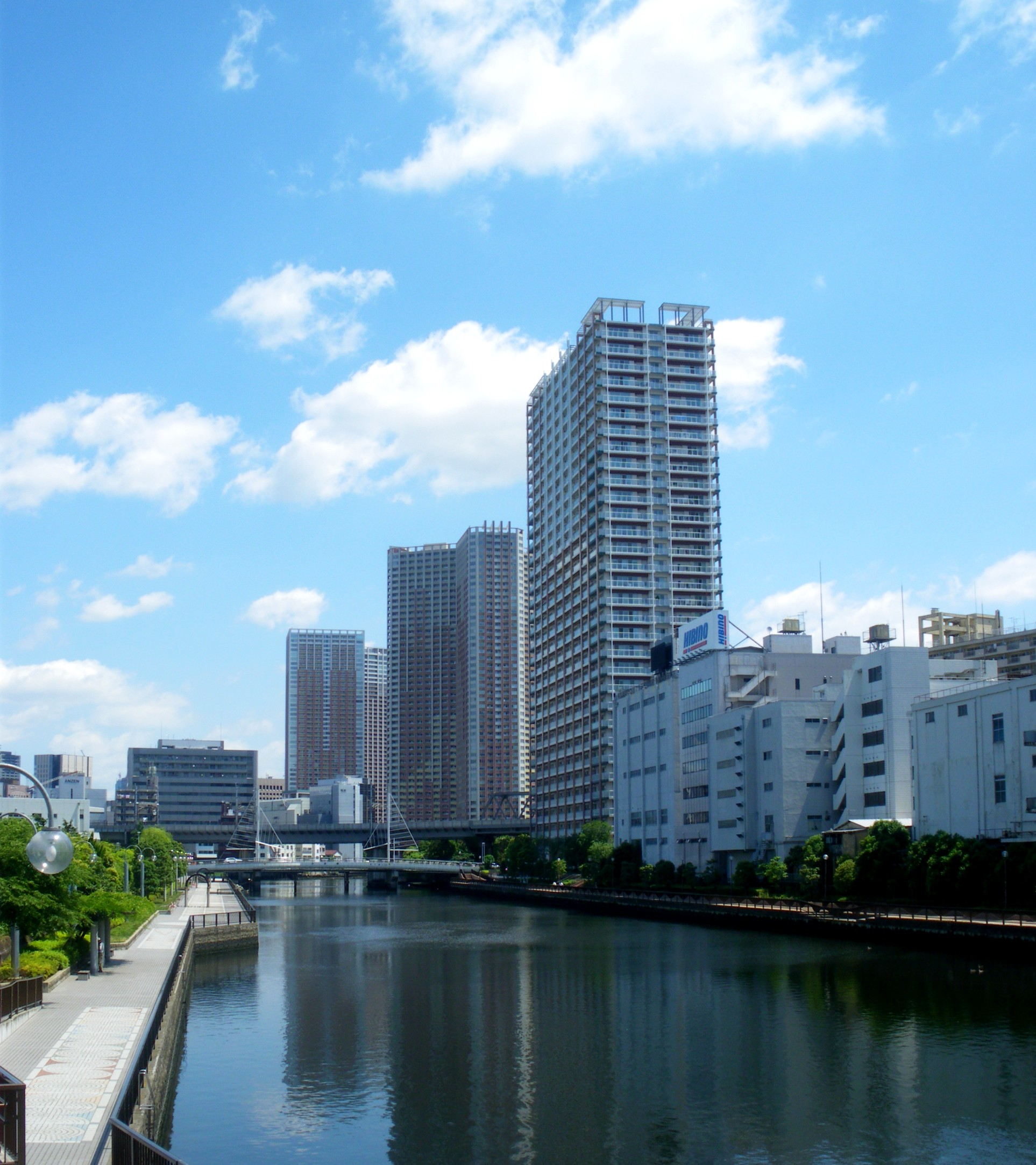 A photo of an overview of Shibaura Island(high-rise apartments in Tokyo) seen from Shinkonanbashi bridge Konan,Minato-ku,Tokyo,Japan.